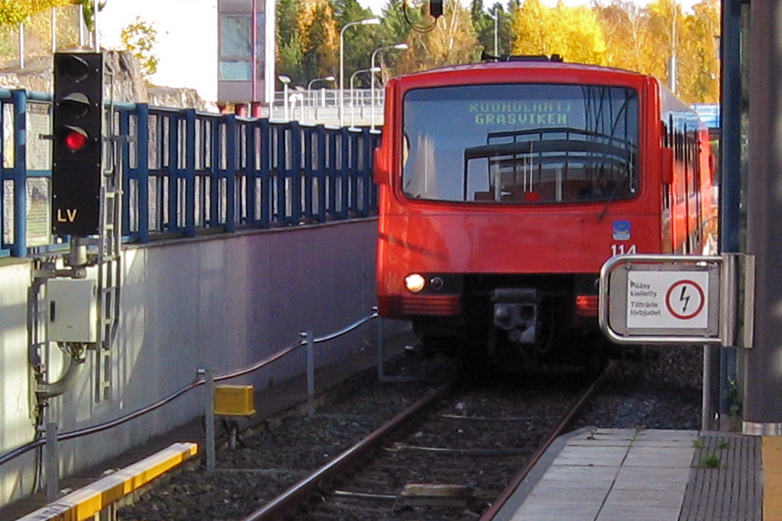 A M100 series train enters Rastila metro station in Helsinki